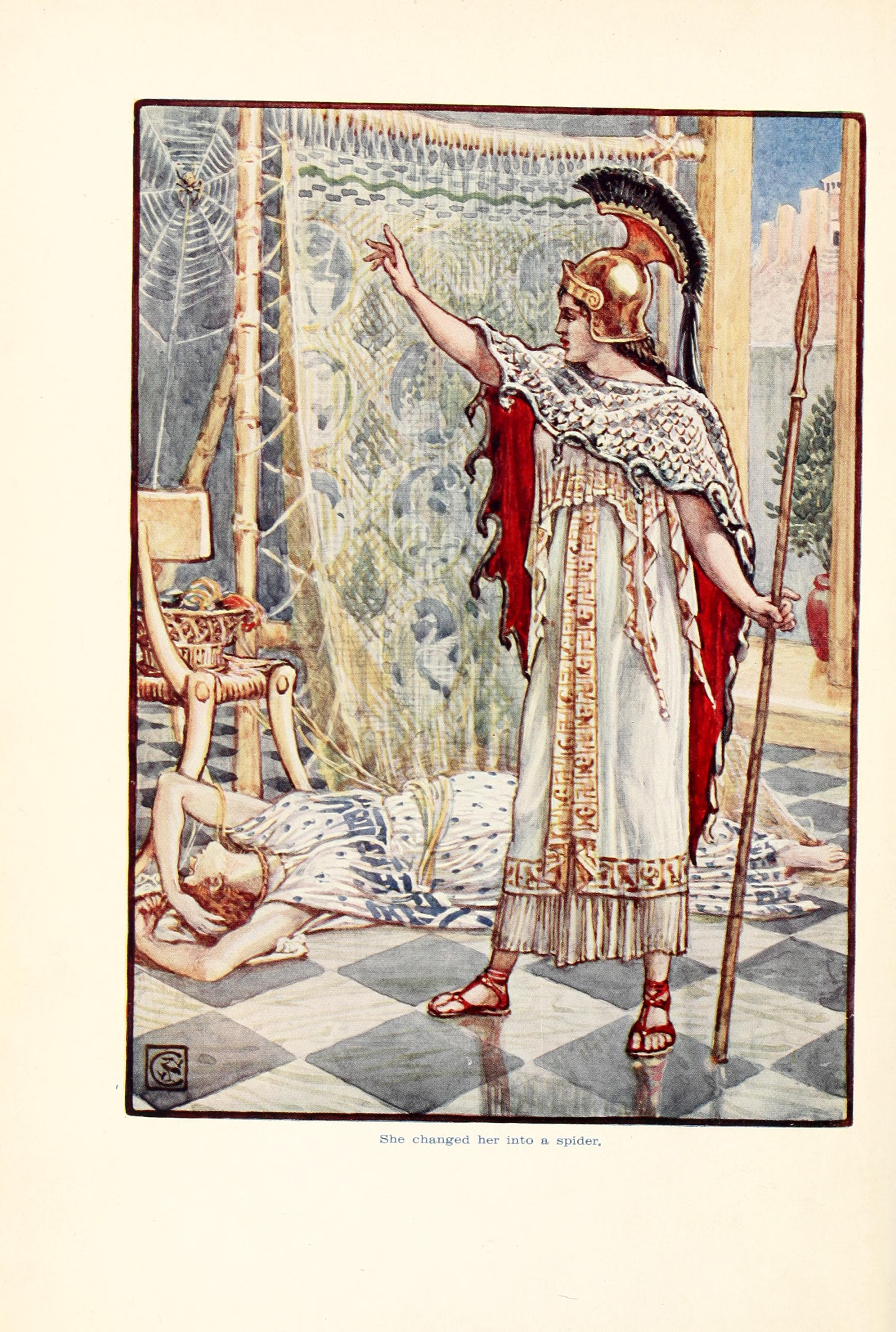 These stories from the history of ancient Greece begin with myths and legends of gods and heroes and end with the conquests of Alexander the Great. The book is accessible and well organized, but it is considerably more detailed than some other introductory texts. It covers Greek history from the age of Mythology to the rise of Alexander, but because of its length we do not recommend it for 5th grade or younger. It is an excellent reference, thoroughly engaging, and a good candidate for a somewhat older student's first foray into Greek history.